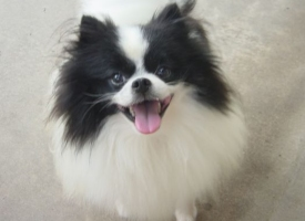 Parti Colored Pomeranian. Photo Courtesy of . Permission was given to me from Kathy Anderson to post photo here On the Commons for use in articles.